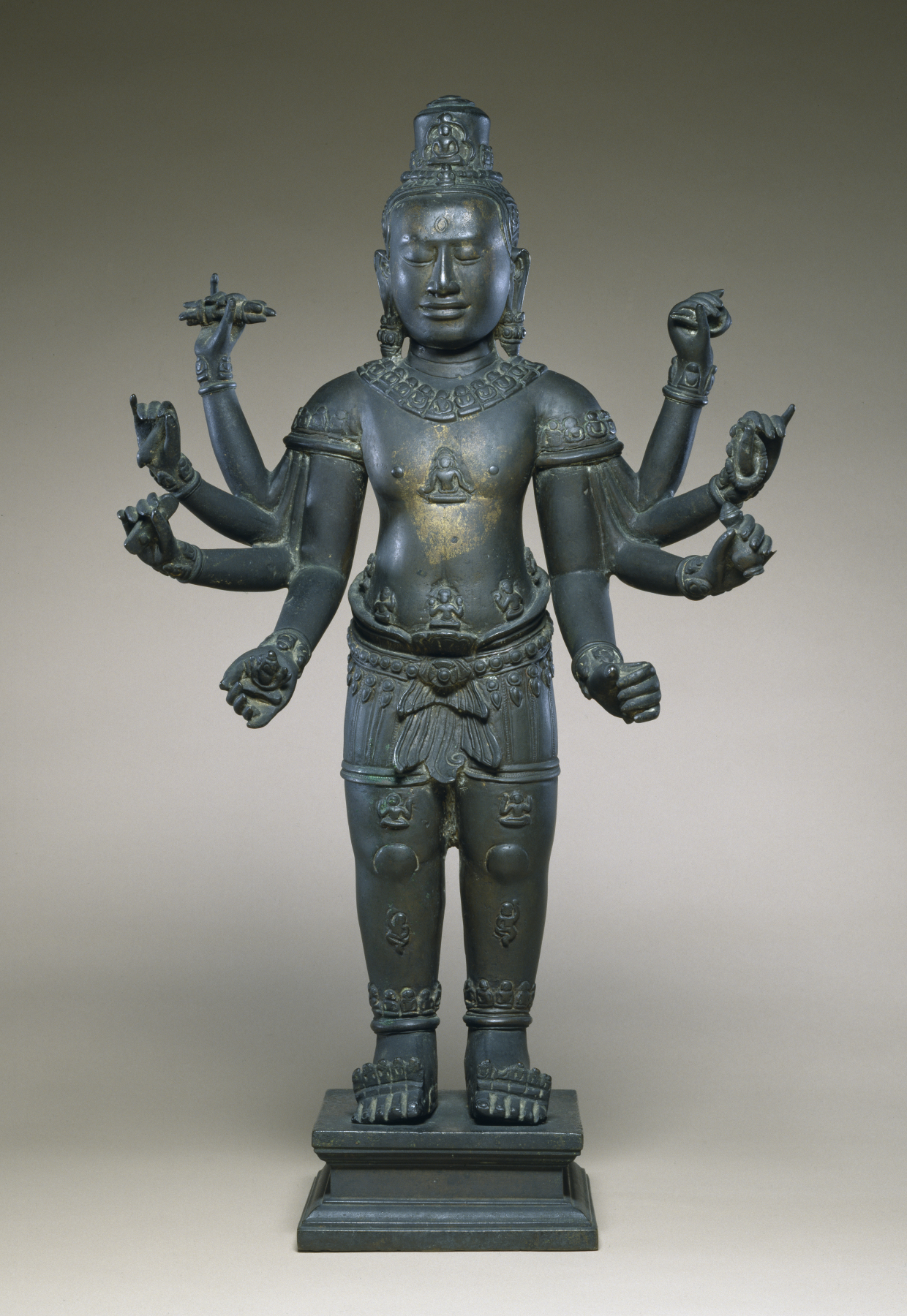 This figure of the Bodhisattva of Compassion is a bronze replica of one of the twenty-three stone images King Jayavarman VII sent to different parts of the kingdom in 1191 in a celebration of the compassion the king attributed to his own father. The small figures of the Buddha can be understood as representing the qualities of Buddhahood that lie in every pore of Avalokiteshvara's skin, and the figures around the waist are an outward manifestation of advanced techniques of meditation.